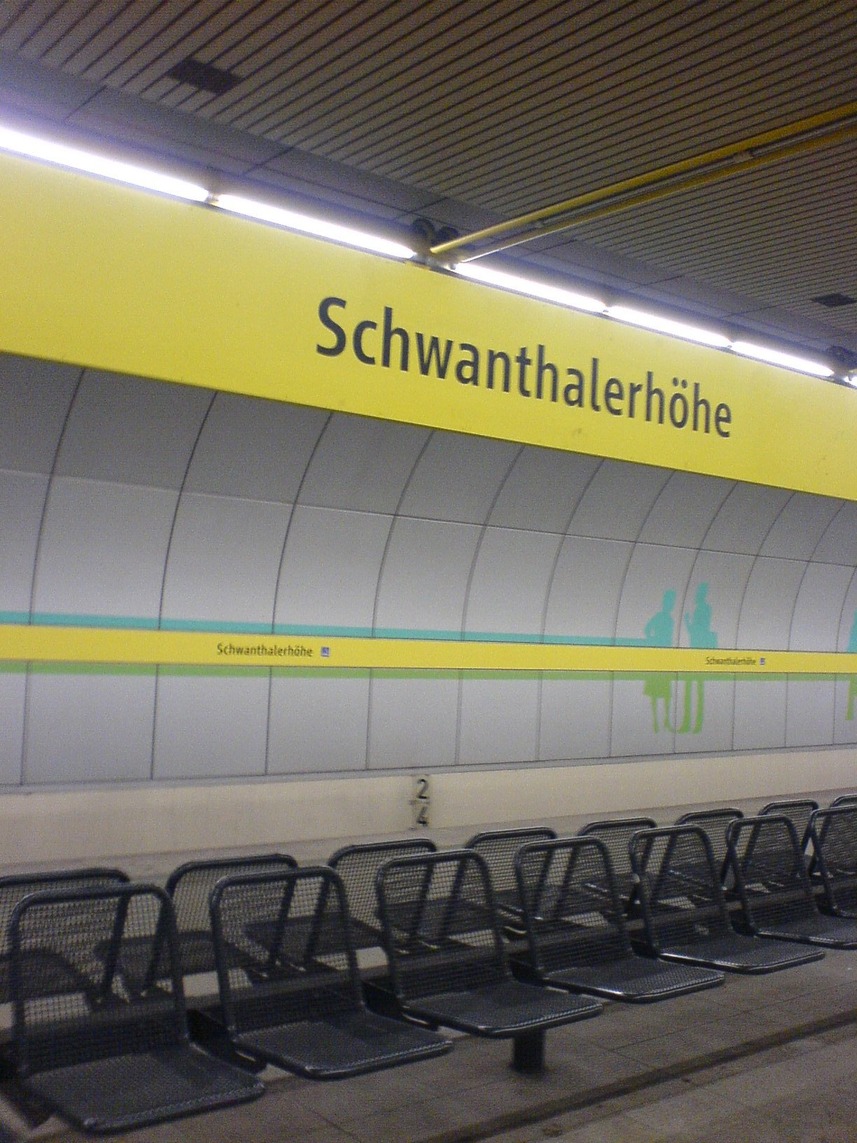 Munich subway station Schwanthalerhöhe platform with sign and wall.